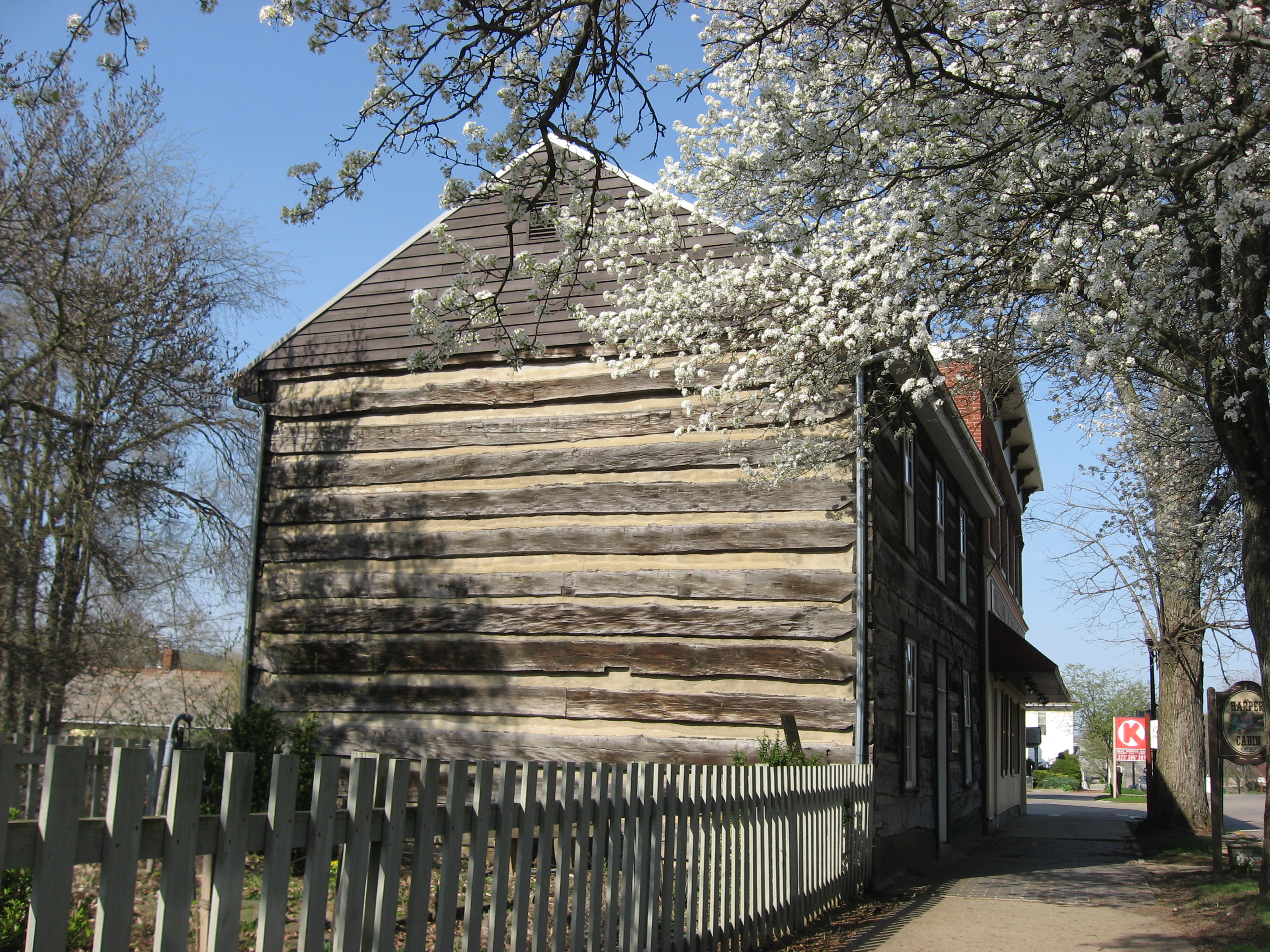 Front and eastern side of the William Rainey Harper Log House, located along E. Main Street (U.S. Route 40) in downtown New Concord, Ohio, United States. Built in 1825, it is listed on the National Register of Historic Places.